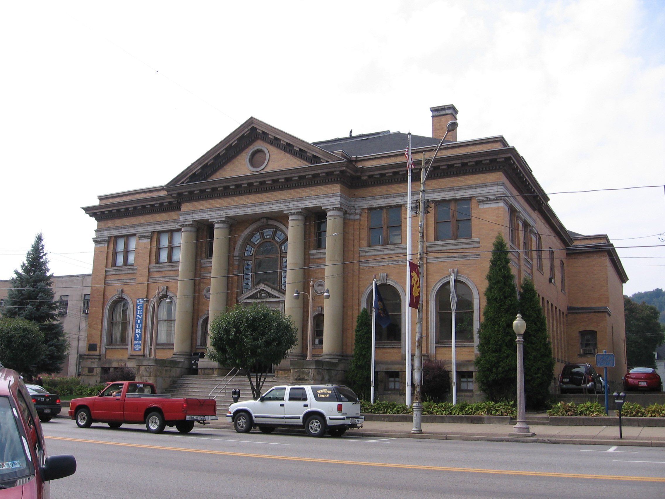 Street view of the Carnegie Free Library, Beaver Falls, located on the northwestern corner of Seventh Avenue and Thirteenth Street in Beaver Falls, Pennsylvania, United States. Built in 1899, the library is listed on the National Register of Historic Places.